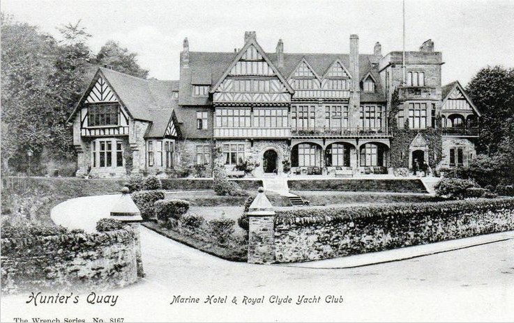 Clubhouse of the Royal Clyde Yacht Club at Hunter Quay (GBR)